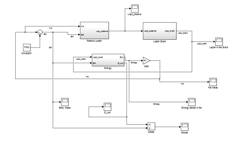 Nesta imagem, temos um exemplo do uso do Simulink (TM); neste caso para modelar o controle de peso em ratos/humanos usando leptina como referência.